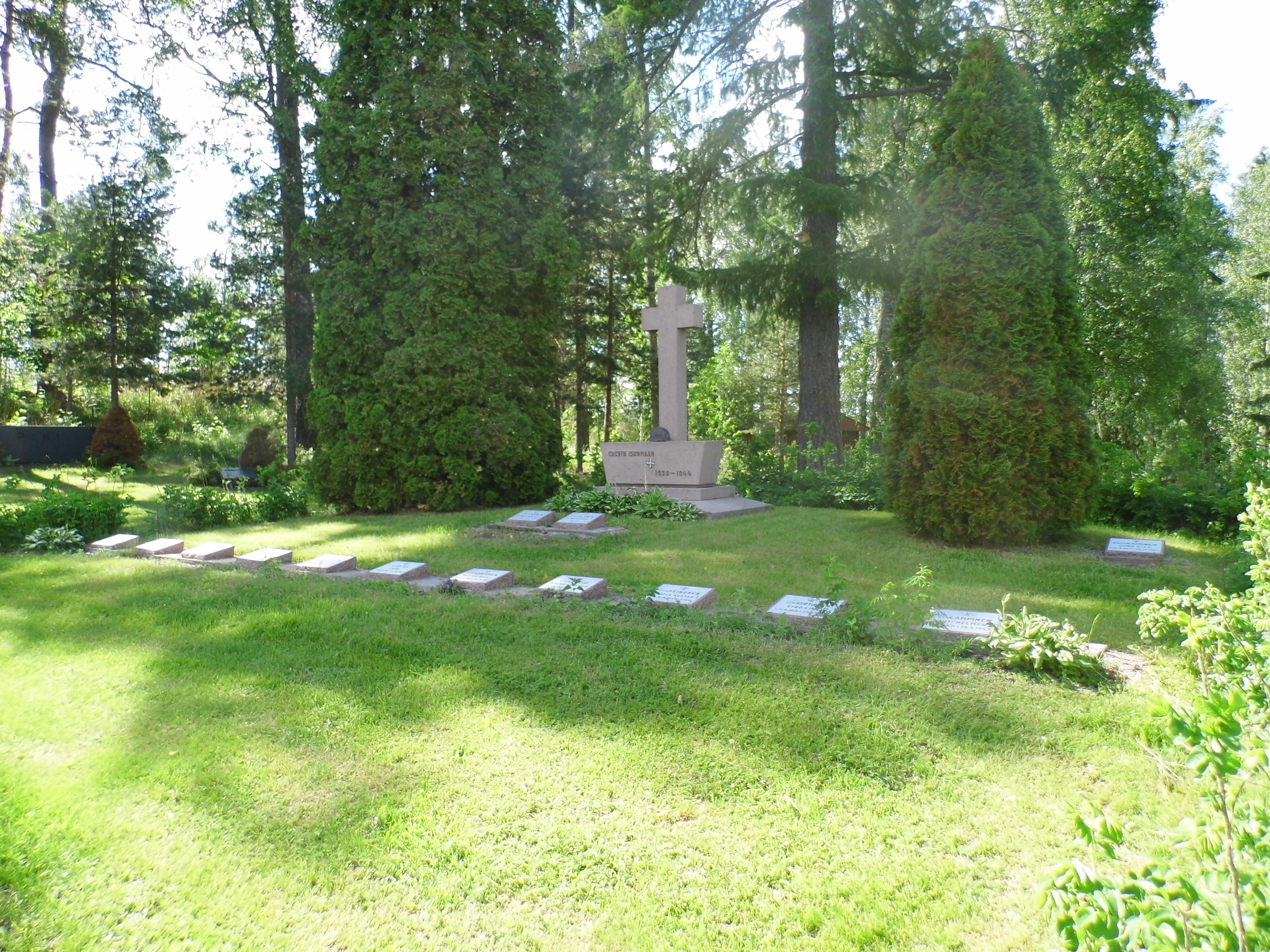 Military cemetary at Mommila, Finland